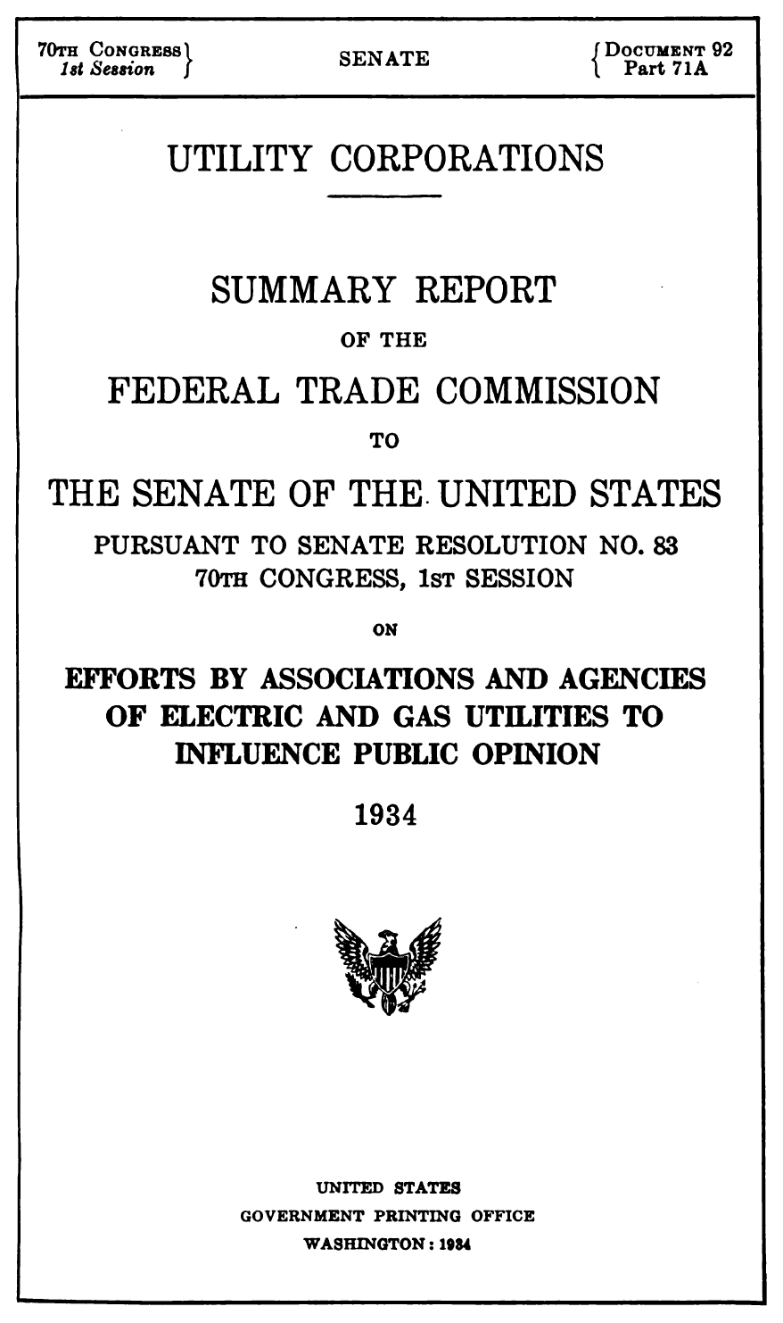 The Federal Trade Commission's November 15th, 1934 report on Efforts by Associations and Agencies of Electric and Gas Utilities to Influence Public Opinion This report is part of a 94 Volume investigation between 1928-1935 that led to the passage of legislation that broke up the corporate holding companies in the United States